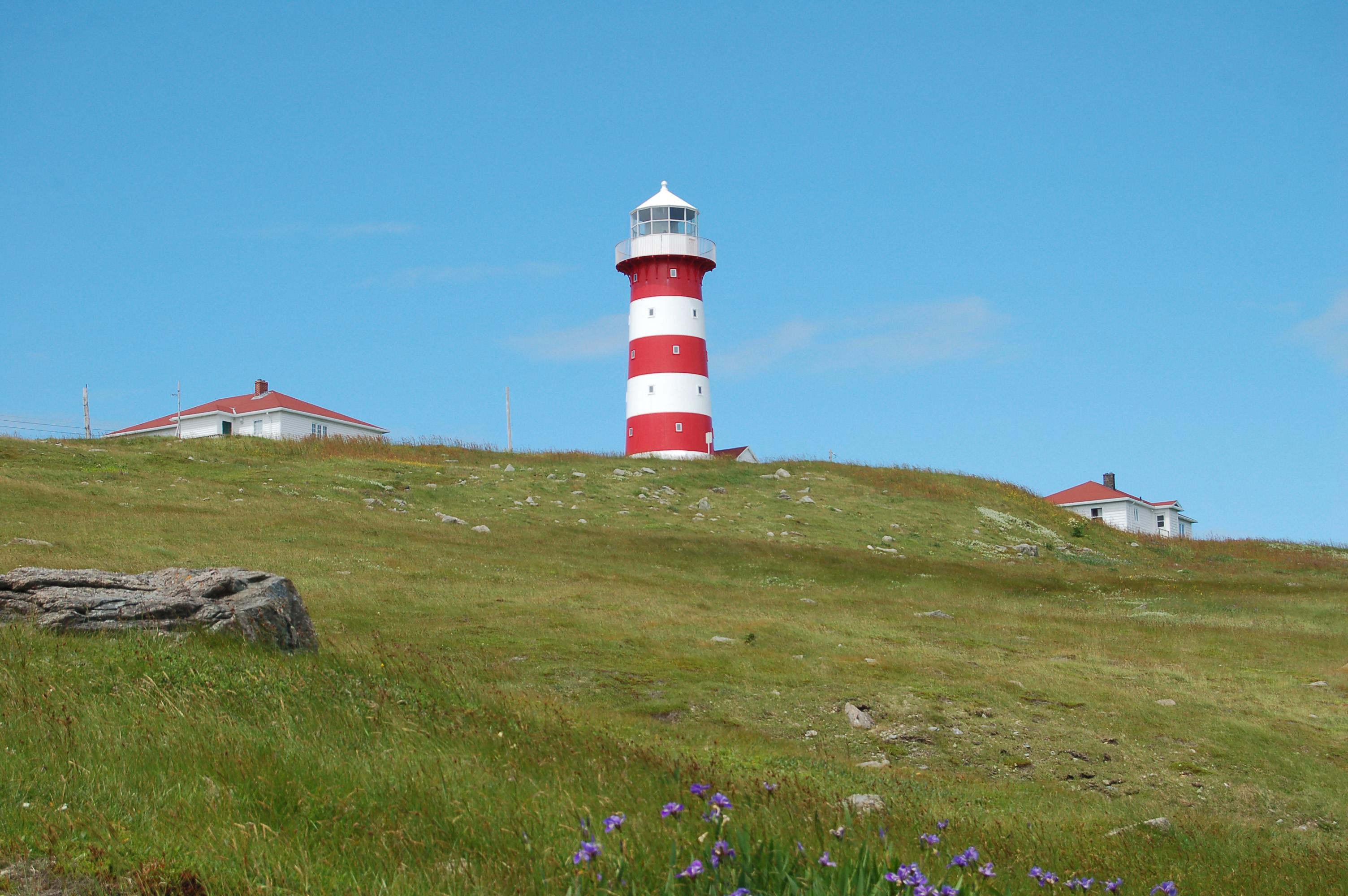 The lighthouse and outbuildings at Cape Pine, Newfoundland. Cape Pine is the most southerly point in the province.